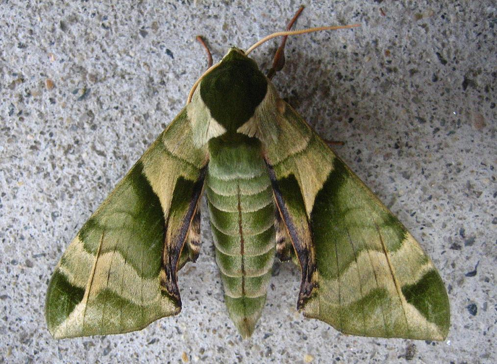 A photo of Callambulyx tatarinovii taken with a Canon Power Shot SD450 Digital Elph camera and modified using a Paint Shop program on a laptop computer.